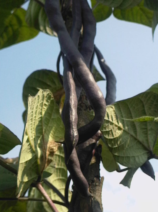 Common bean (Phaseolus vulgaris) with mature fruitpods in Lónyaytelep, Transylvania.